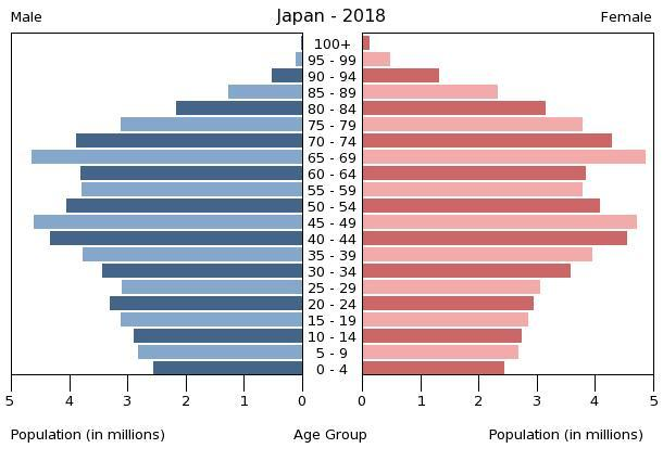 The population pyramid of Japan illustrates the age and sex structure of population and may provide insights about political and social stability, as well as economic development. The population is distributed along the horizontal axis, with males shown on the left and females on the right. The male and female populations are broken down into 5-year age groups represented as horizontal bars along the vertical axis, with the youngest age groups at the bottom and the oldest at the top. The shape of the population pyramid gradually evolves over time based on fertility, mortality, and international migration trends.